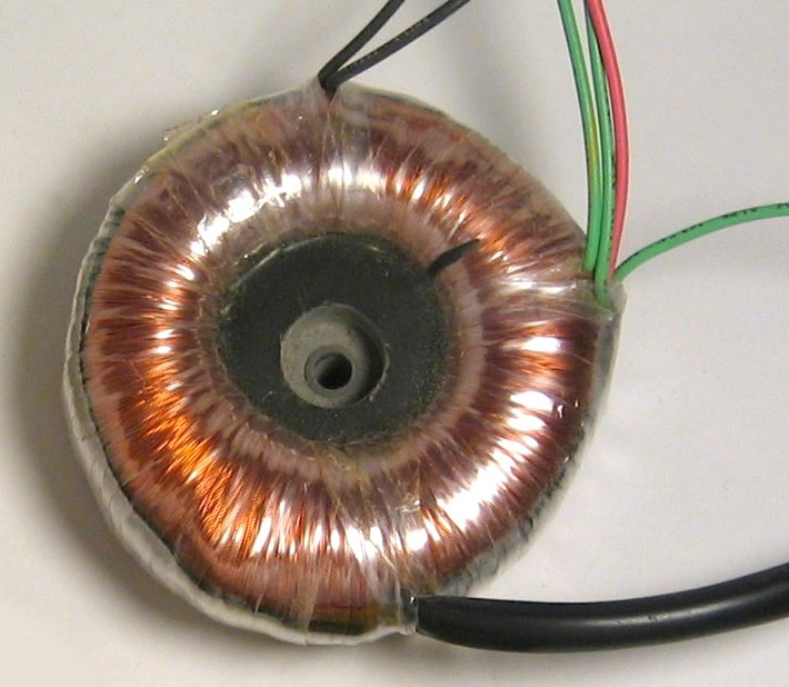 A small toroidal transformer. Cropped from Image:Transformers.jpg by Omegatron